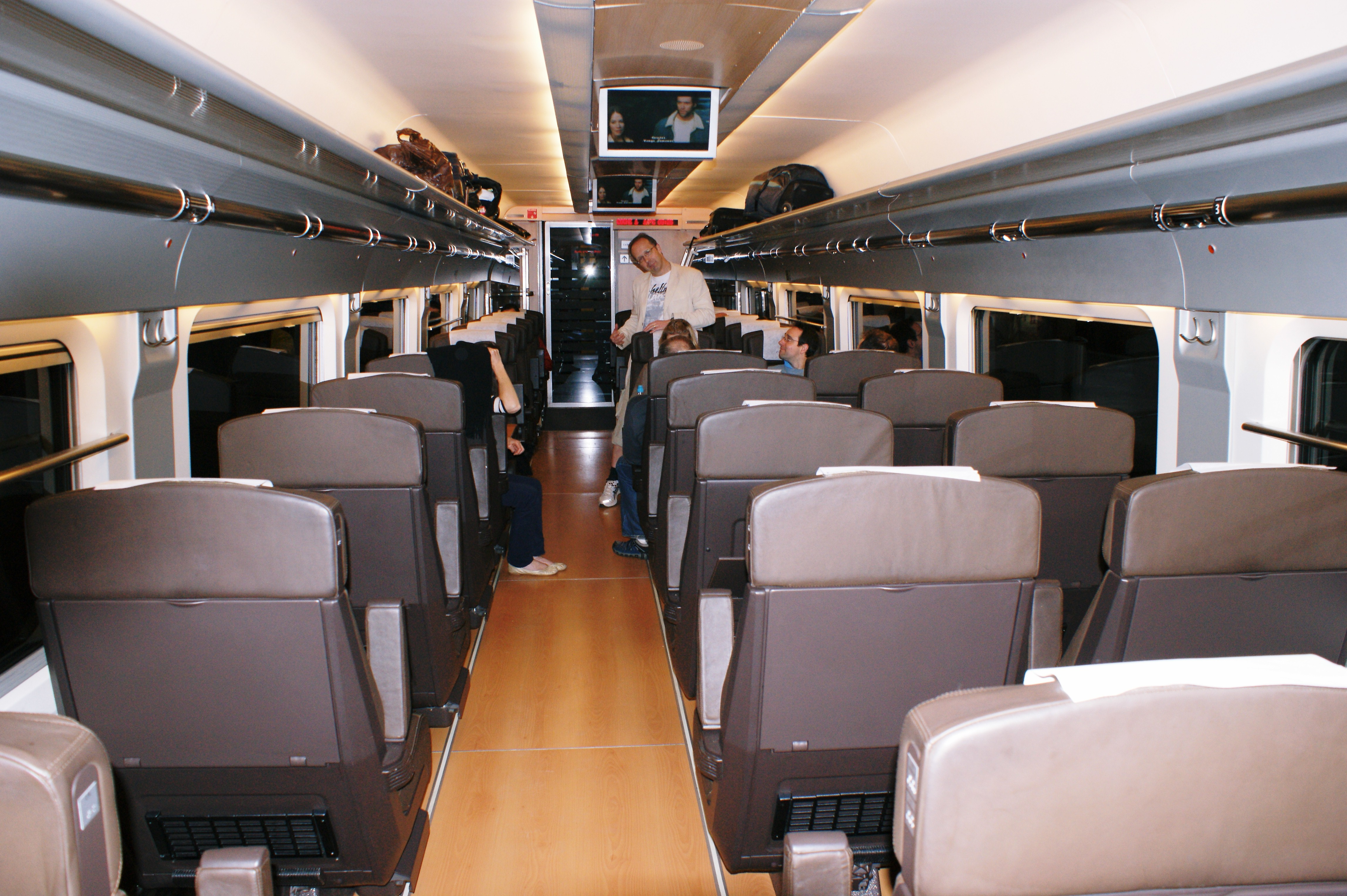 Interior of 1st Class coach of Alstom AVE on the Cordoba - Madrid Atocha High Speed Line, 04/10.